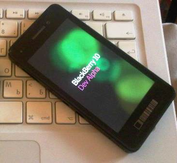 BlackBerry 10 Dev Alpha: Start-up screen